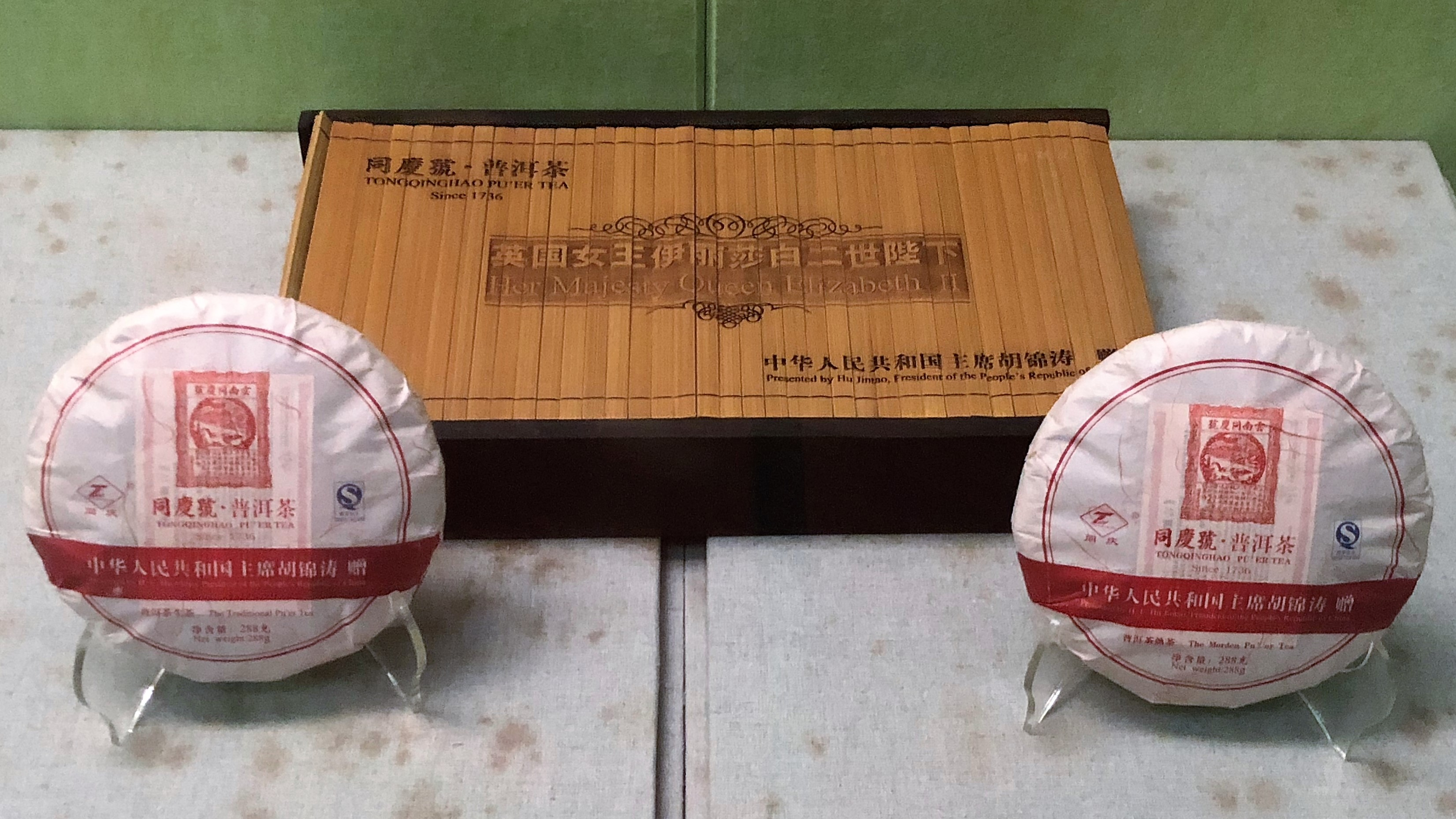 胡锦涛赠伊丽莎白二世国礼普洱茶